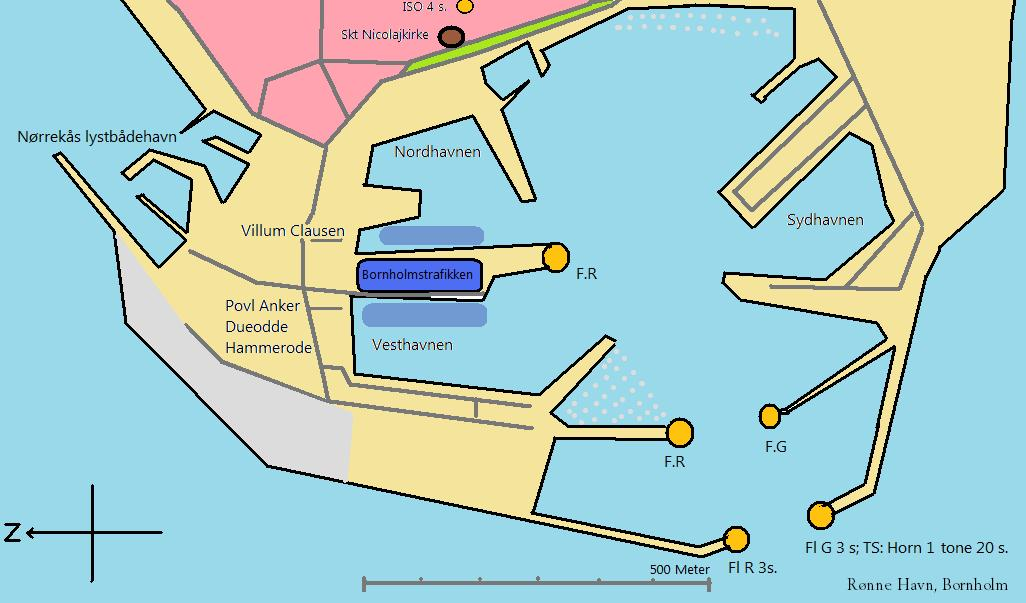 Rønne Harbour